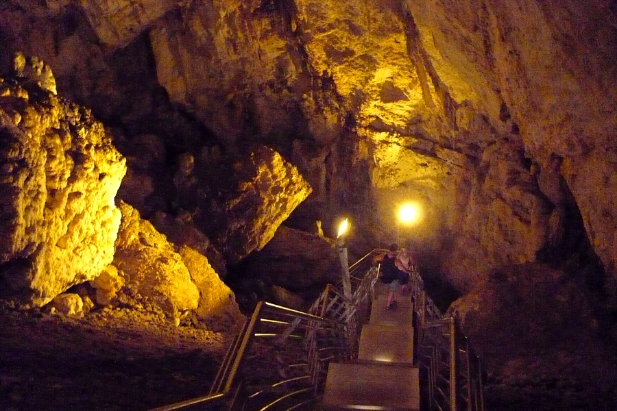 Antiparos cavern